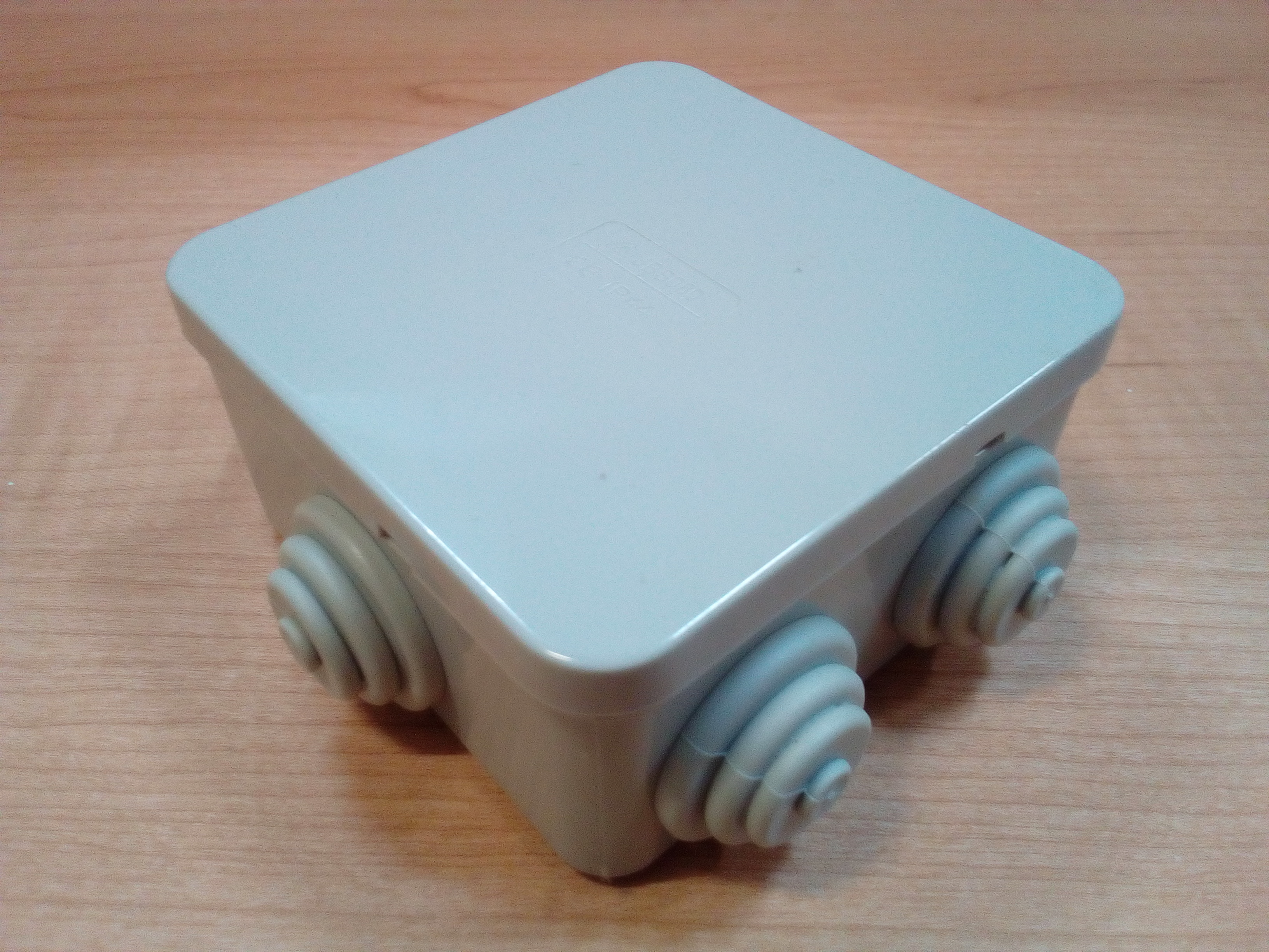 9 x 9 cm